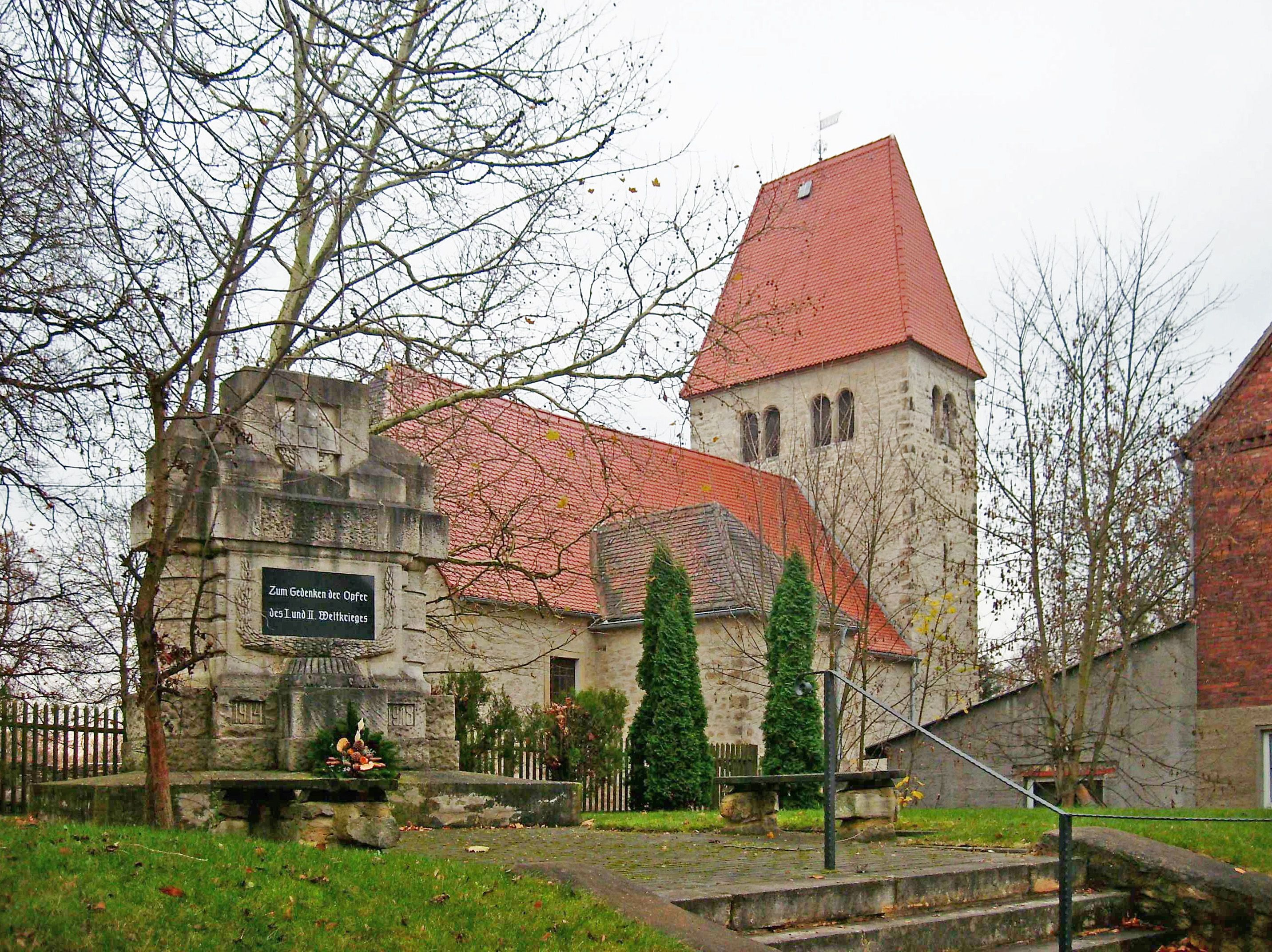 Church and war memorial in Schladebach (Leuna, district of Saalekreis, Saxony-Anhalt)